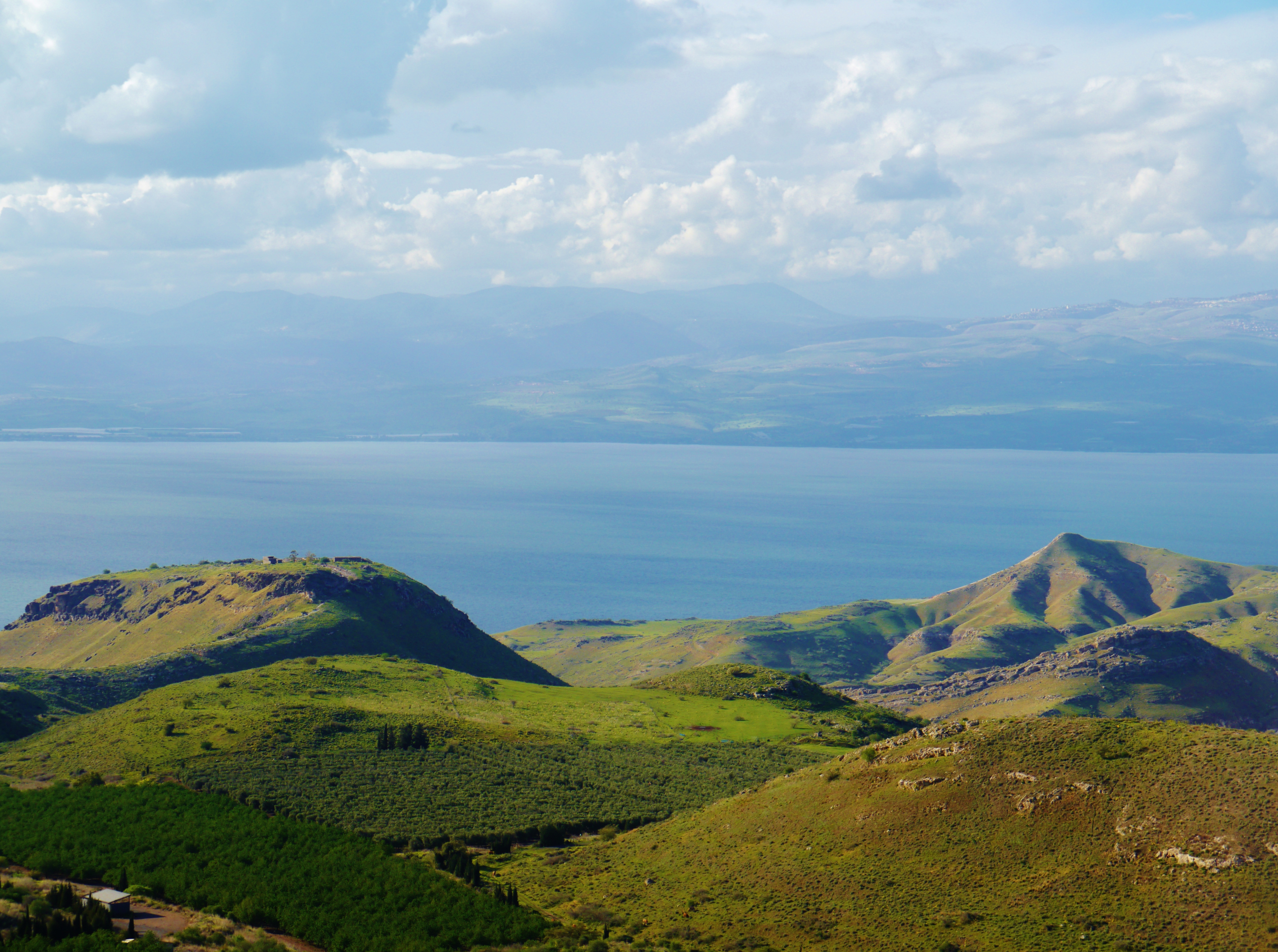 View from the Golan Hights to the Sea of Galilee, Israel